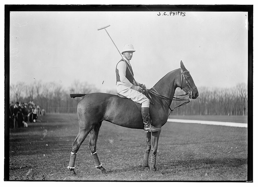 John Shaffer Phipps circa 1915